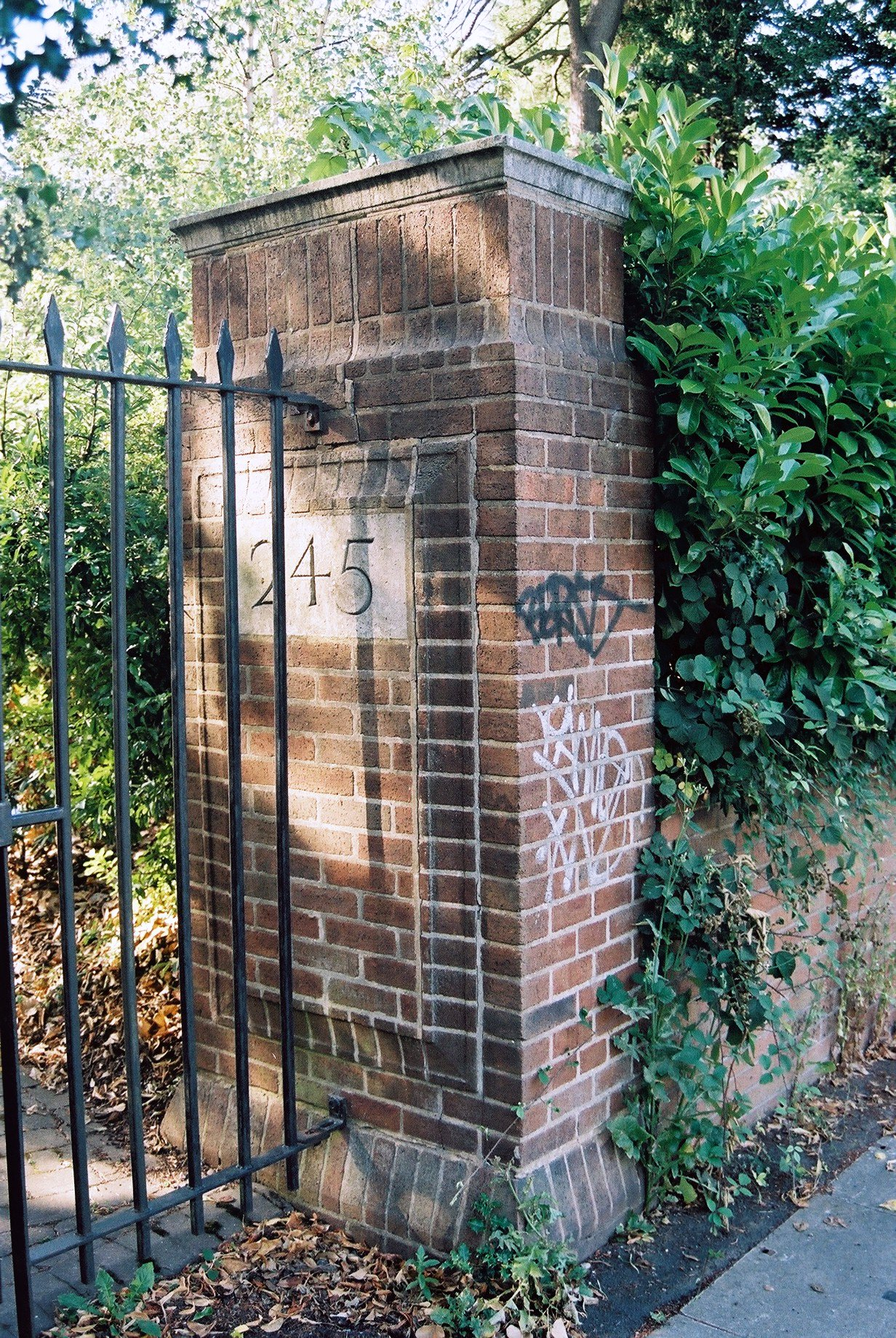 The gate piers at 245 Bristol Road, Edgbaston designed by William Haywood for his own home.